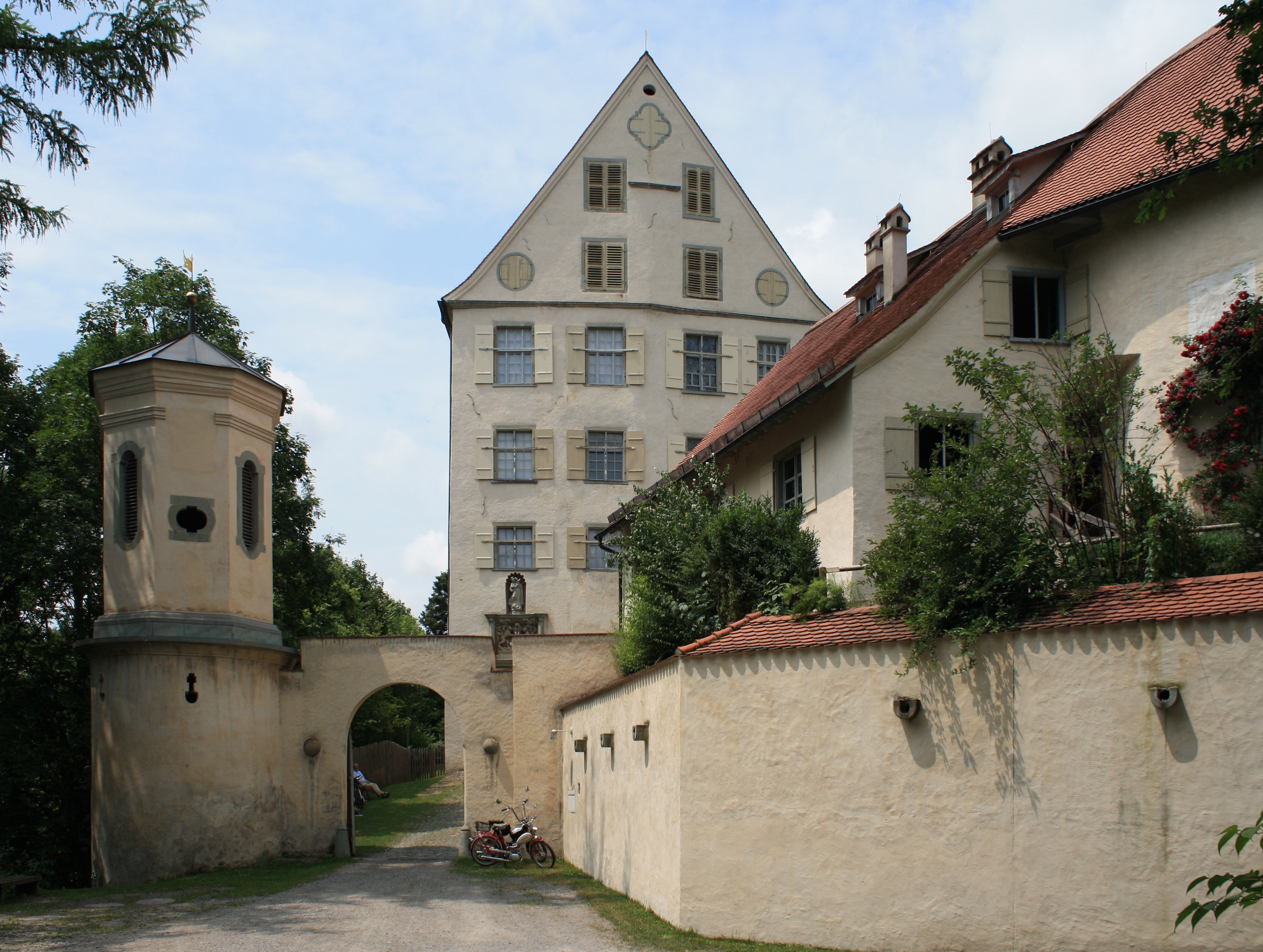 Achberg Castle